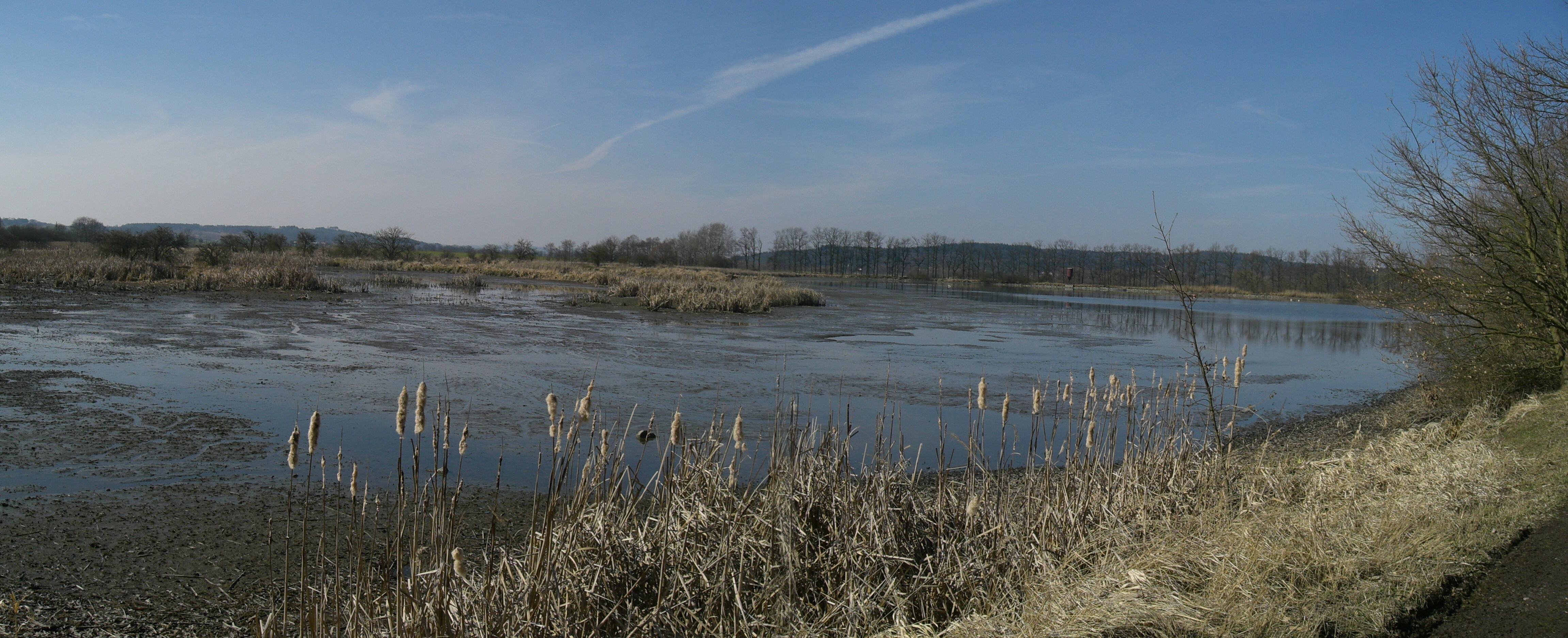 Skalský rybník - nature reservation in Písek district, Czech Republic. Panorama